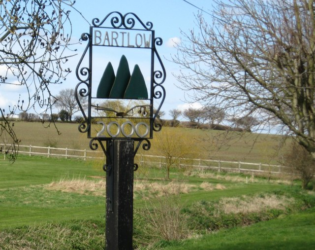 Bartlow village sign, near to Bartlow, Cambridgeshire, Great Britain. The three hills at Bartlow which pervade village culture (both the pub and one of the local farms are called Three Hills) are three Roman burial mounds to the SE of the village, one of the richest sources of archaeological remains of its type in the country.